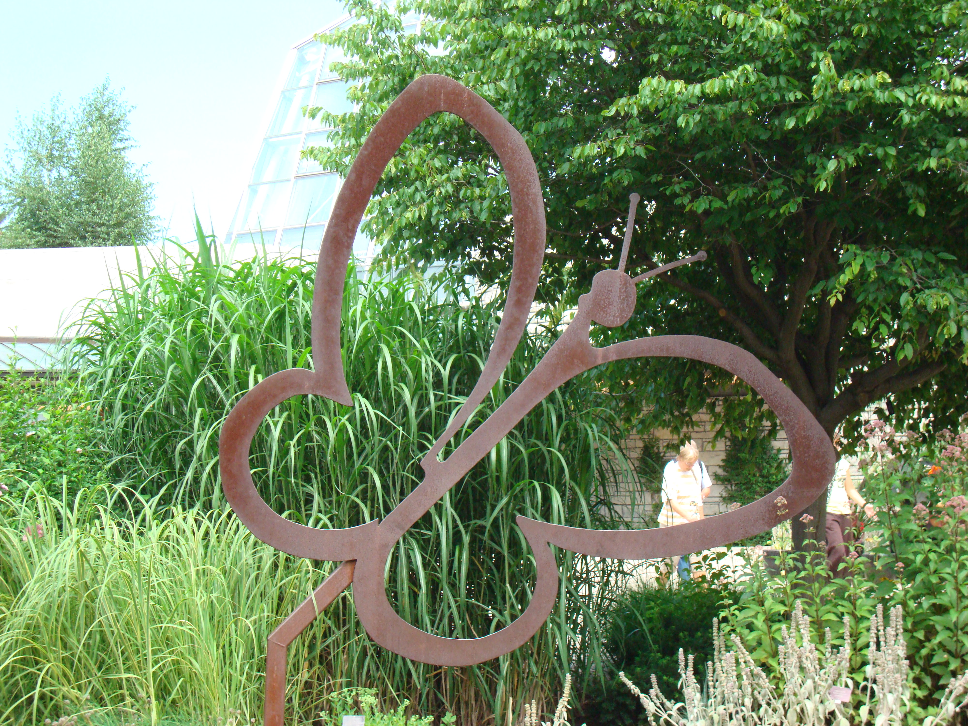 Butterfly sculpture, made from COR-TEN steel, at the Niagara Parks Butterfly Conservatory, Niagara Falls, Ontario, Canada